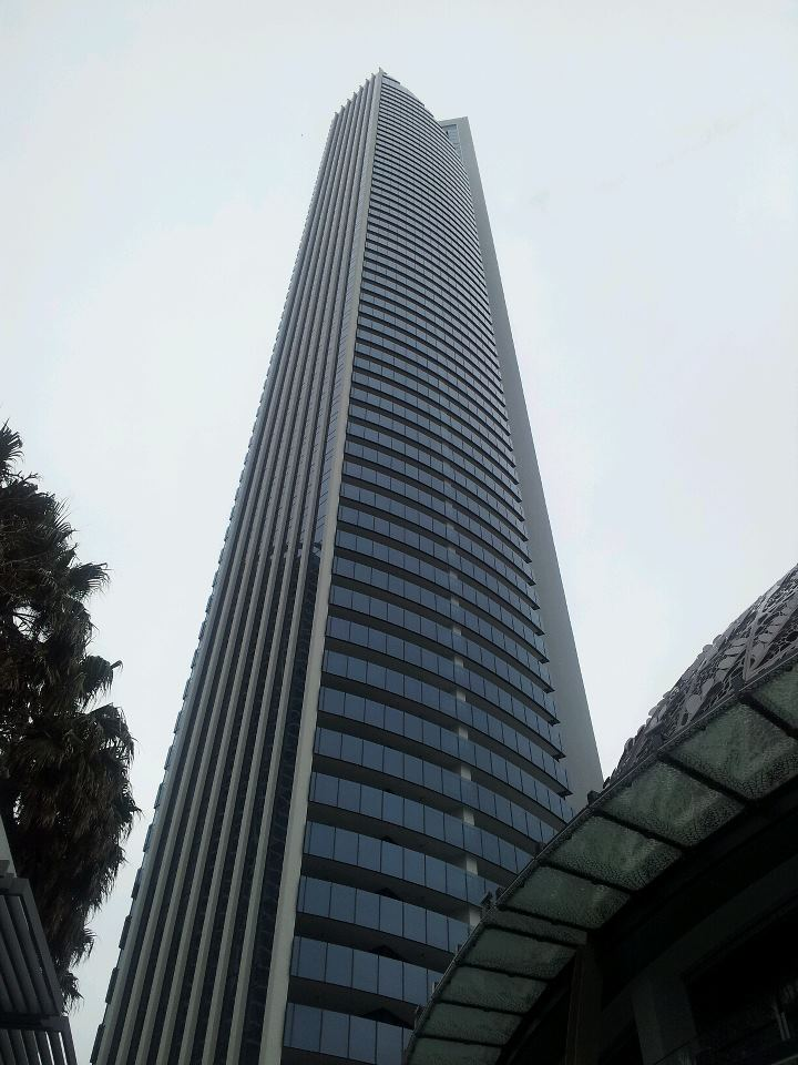 Sea Temple Surfers Paradise, Gold Coast, Australia (aka Soul Tower)